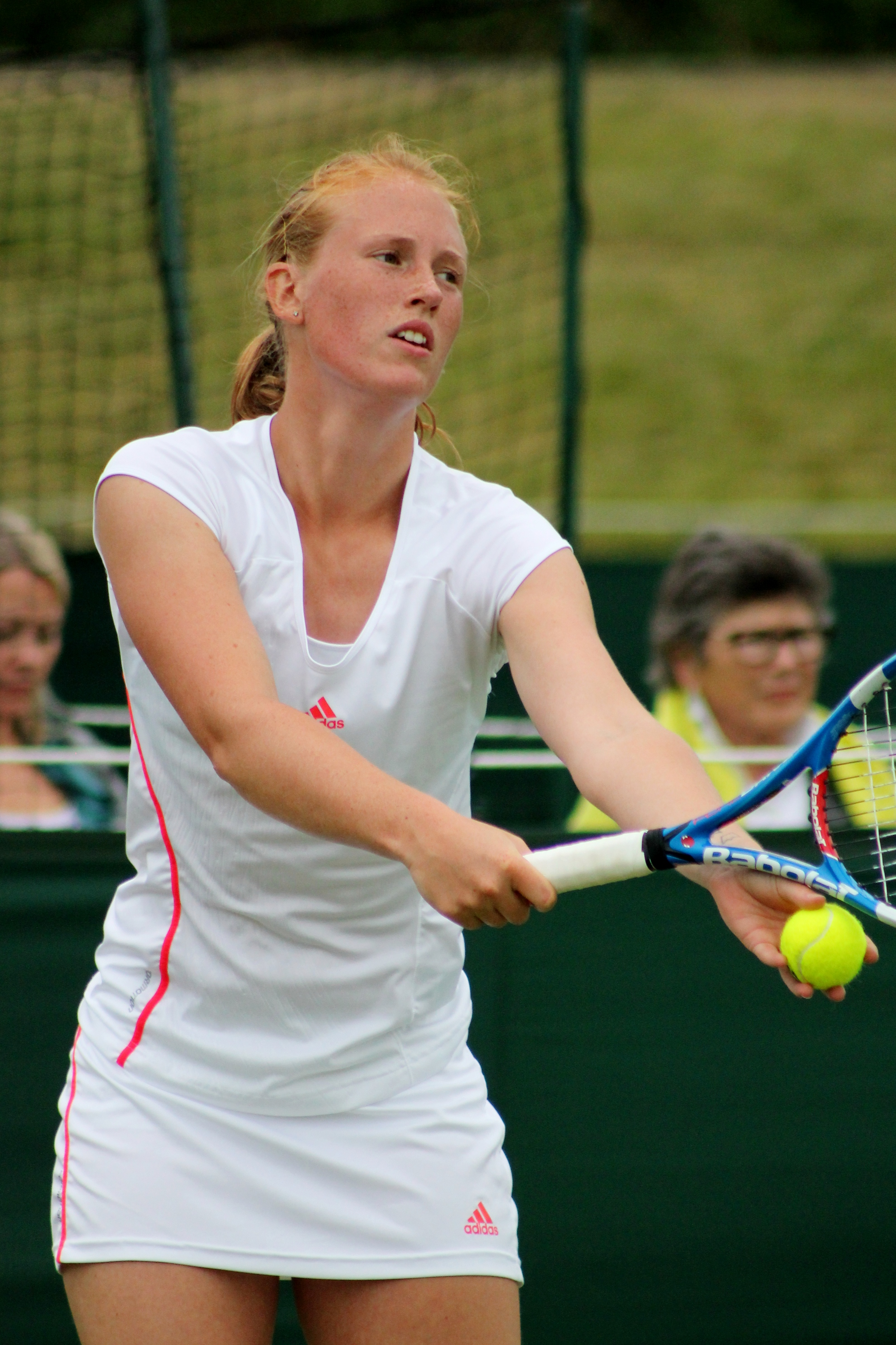 Anna Smith playing in the final round of the Wimbledon Qualifying Ladies' Doubles Tournament 2013 at the LTA Roehampton on 20 June 2013; partner was Naomi Broady (GBR); opponents Maria Irigoyen (ARG) & Paula Ormaechea (ARG)